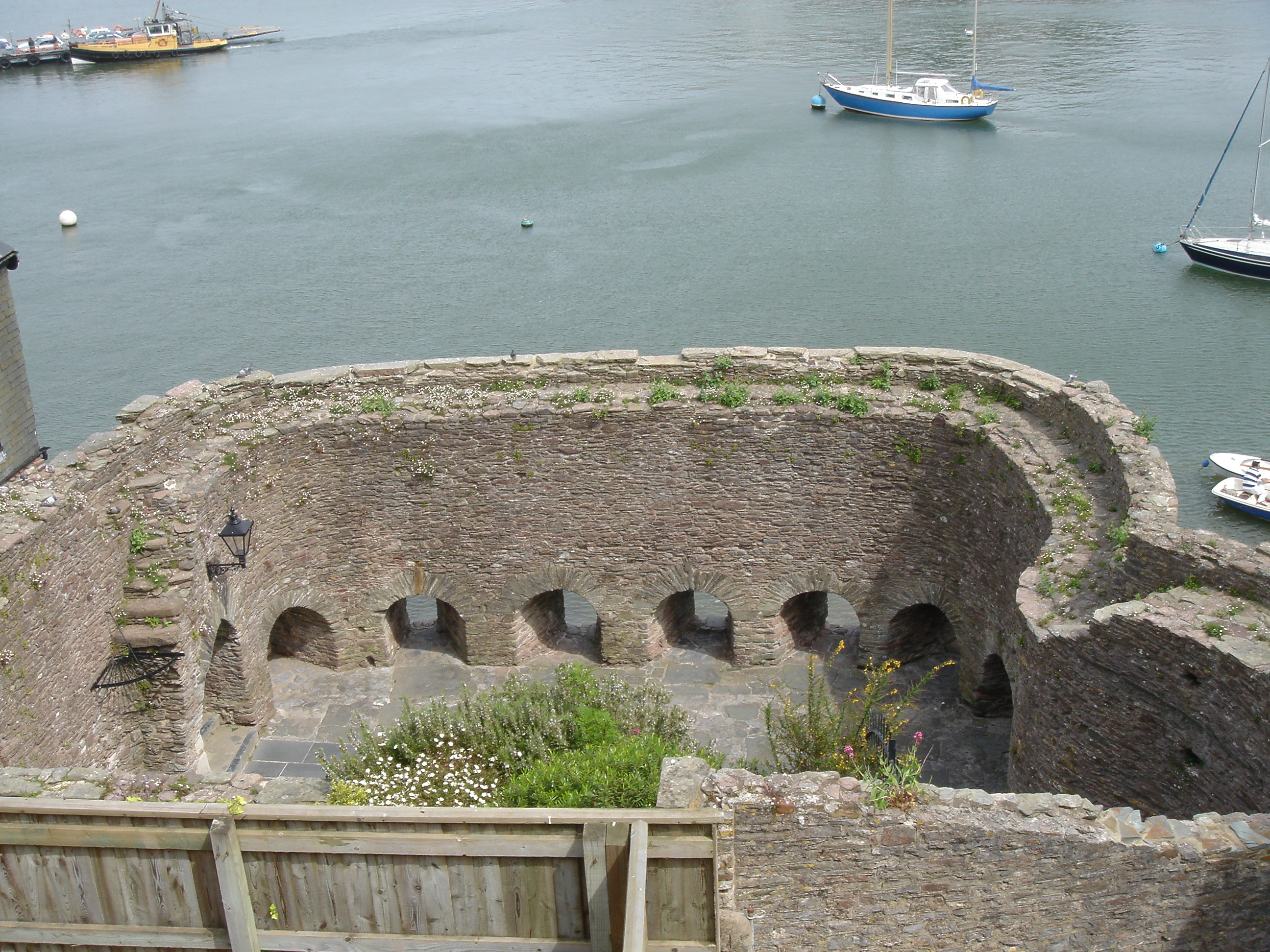 Bayard's Cove Fort, Dartmouth, Devon